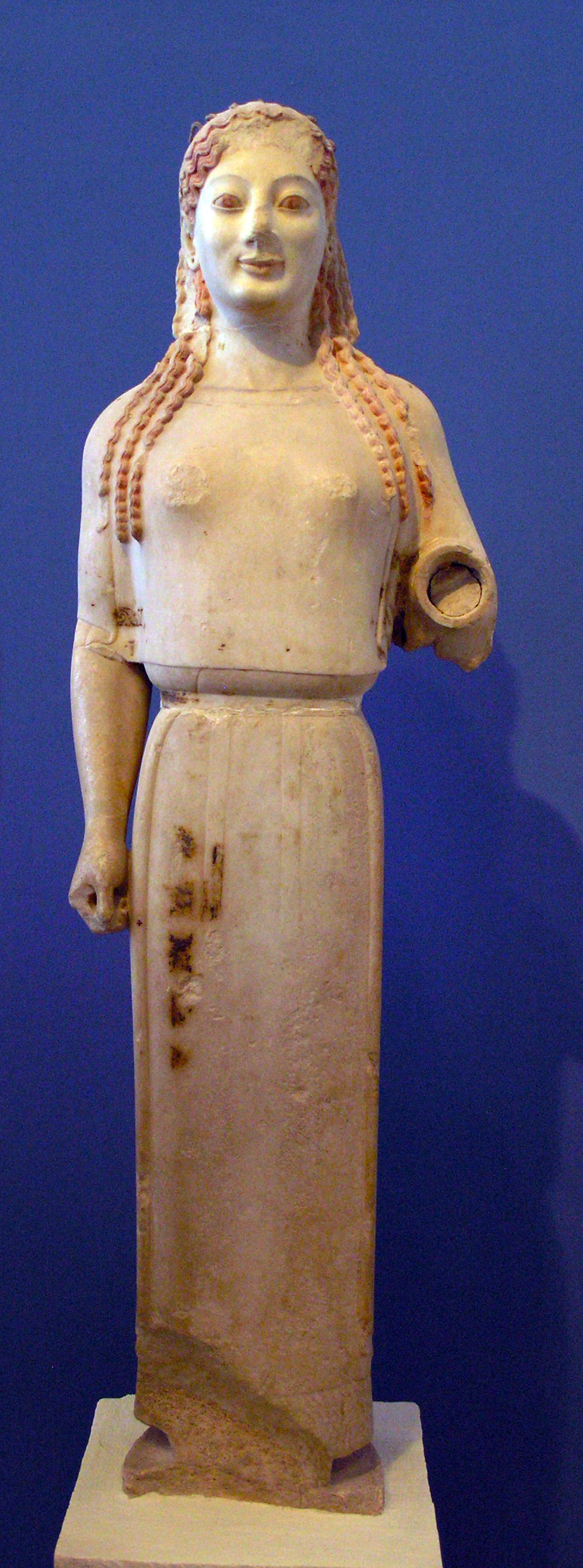 Statue of a maiden. She wears a peplos over the chiton. Often attributed to the same sculptor of the Rampin Horseman. Missing left forearm and lower right corner of skirt with forepart of feet.